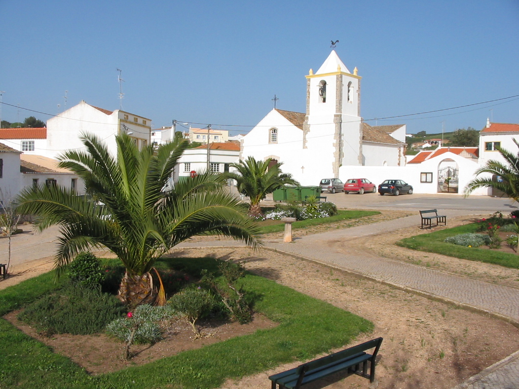 Center of Raposeira